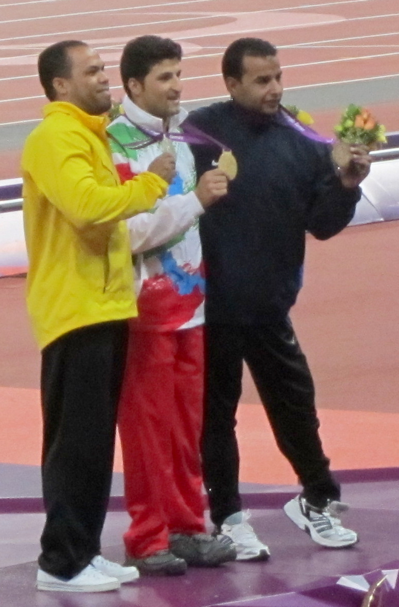 Gold: Mohammad Khalvandi (Iran); Silver: Batista dos Santos (Brazil); Bronze: Raed Salem (Egypt)